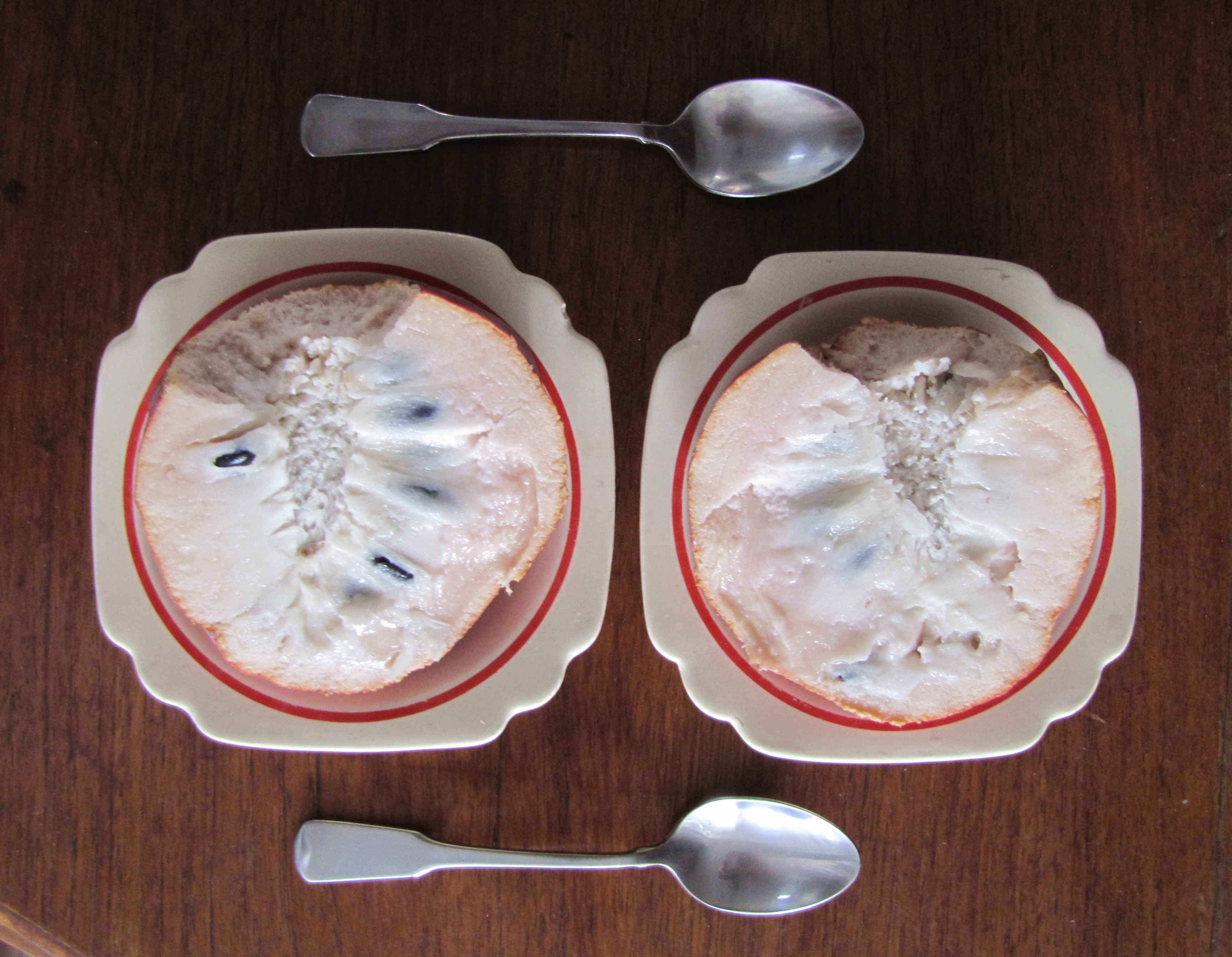 Halved annona fruit from my backyard, Merida, Yucatan, Mexico